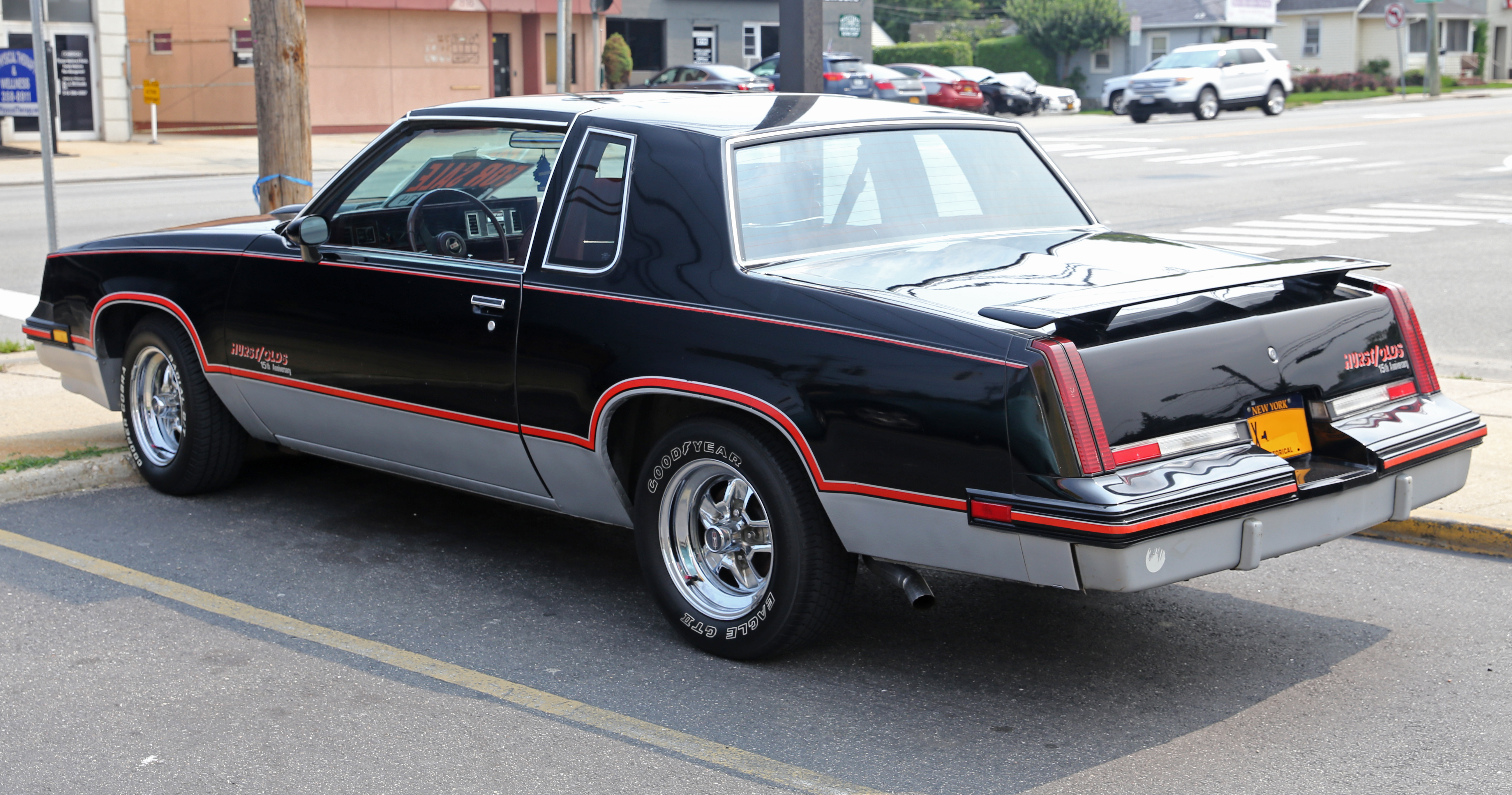 A 1983 Hurst/Olds 15th Anniversary, one of 3001 built.